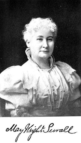 Image of May Wright Sewall